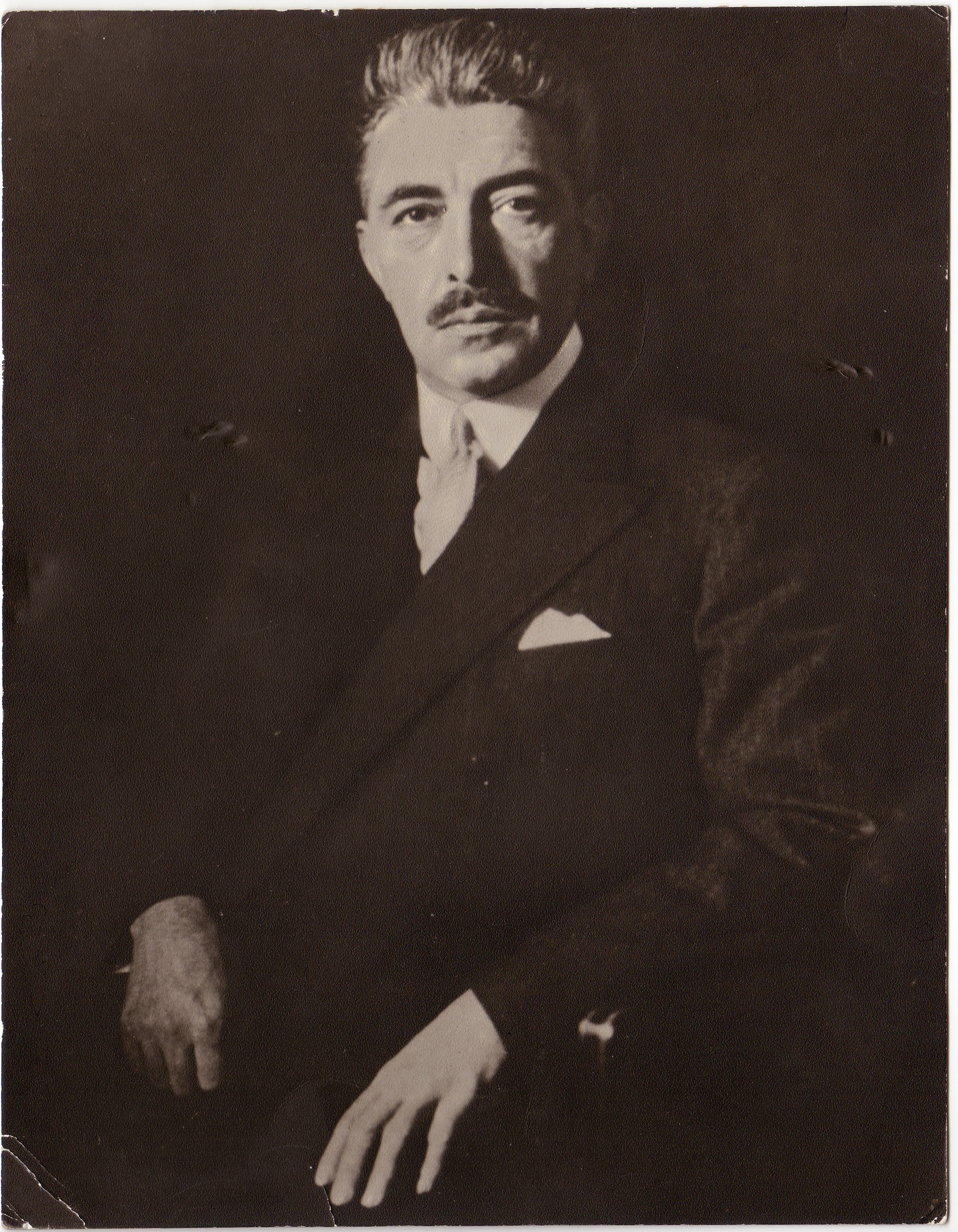 Abdolhossein Teymourtash, minister of the Court in Iran